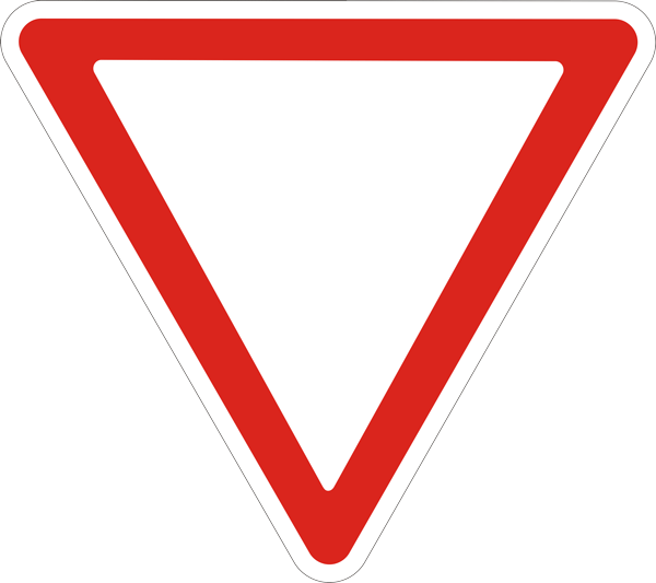 Give way.